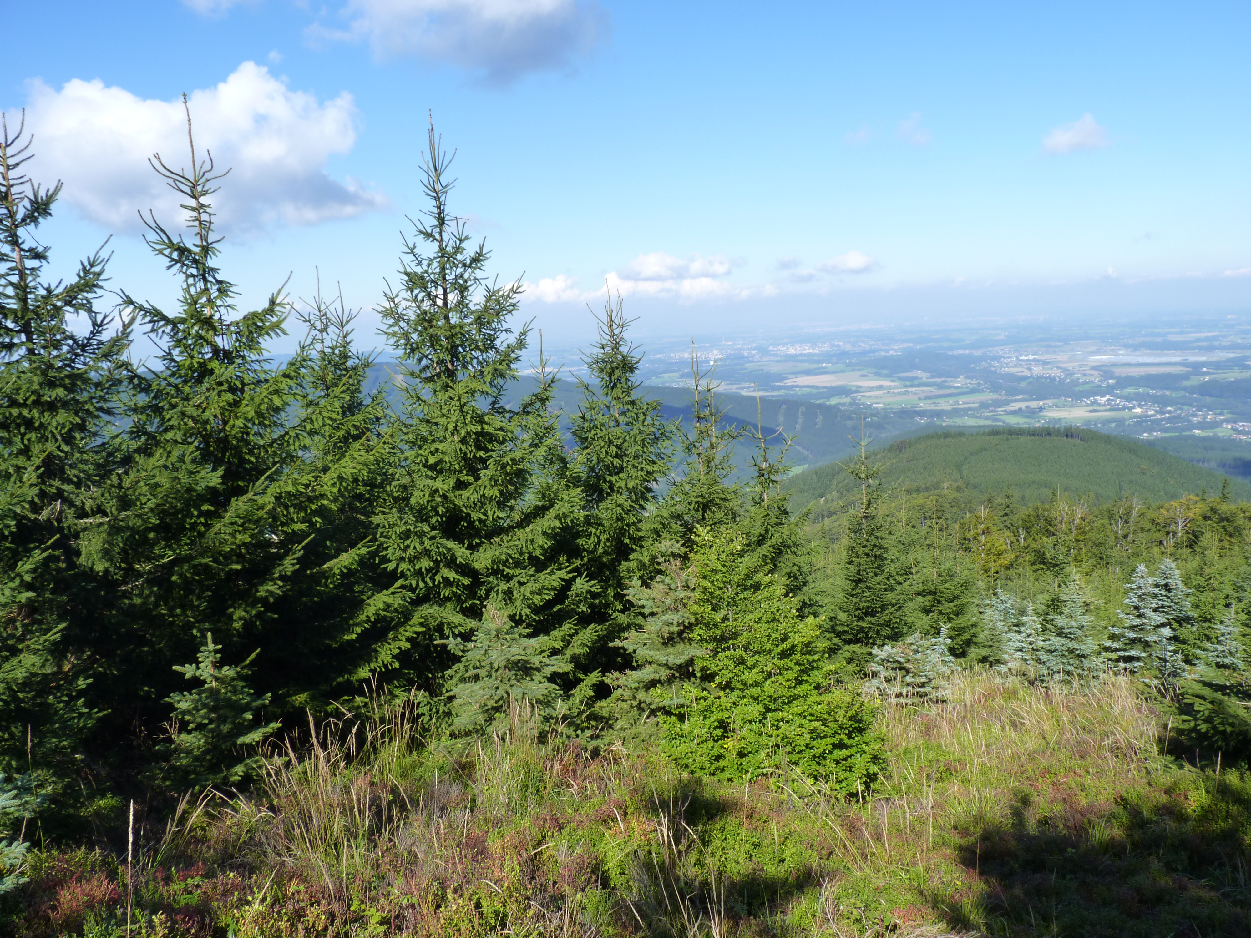 Nature reserve Travný, Moravian-Silesian Beskids